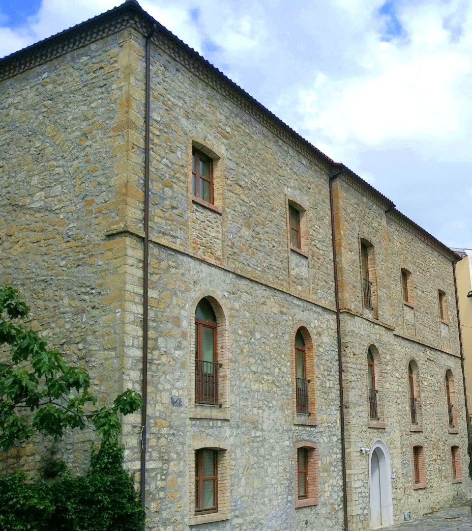 St. Giacomo museum, a former hospital in Ariano Irpino, Italy